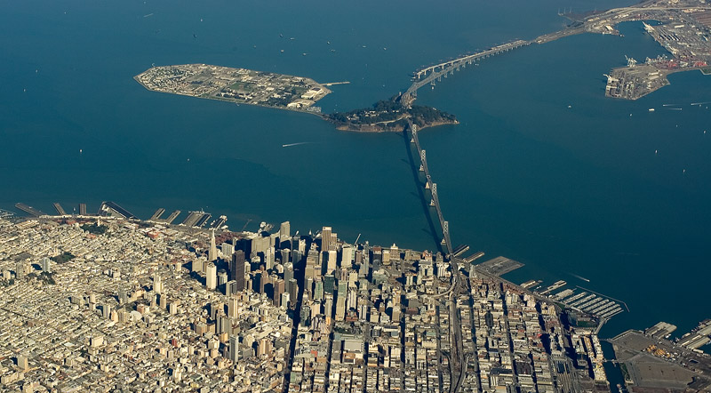 Bay Bridge San Francisco from the air